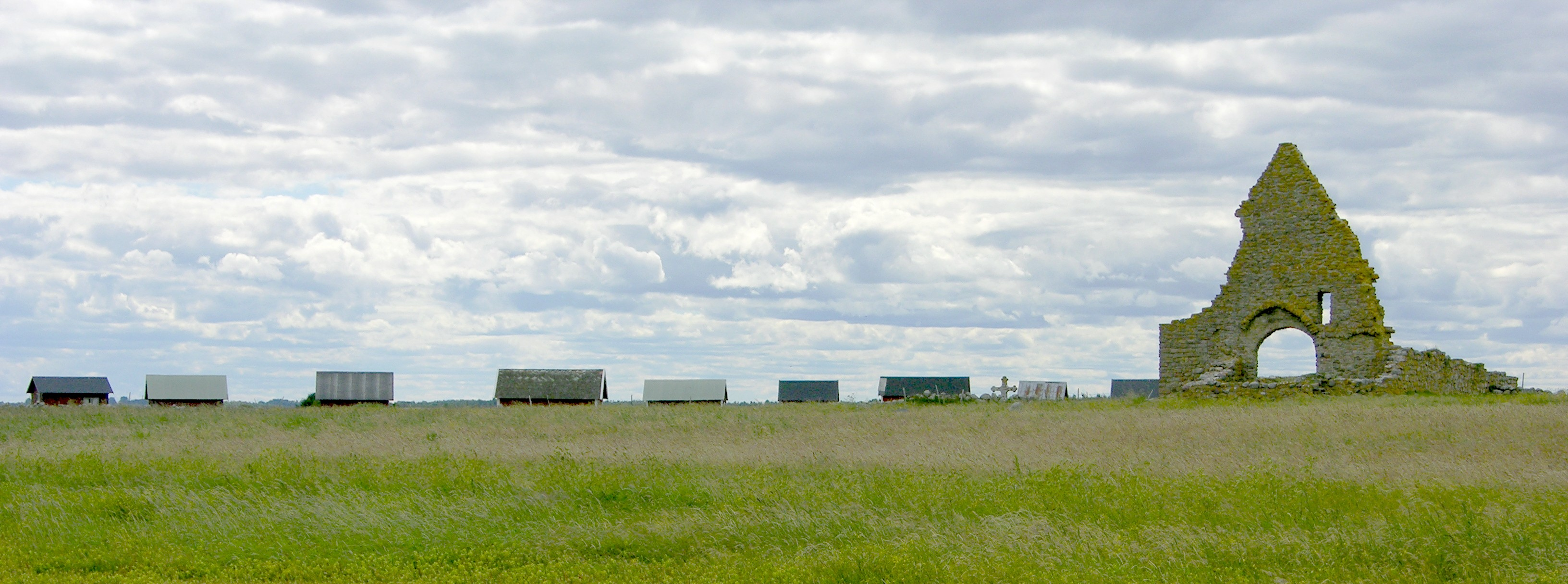 The ruins of the Chapel of Saint Birgitta (possibly Birgitta of Sweden or Brigid of Kildare) at Kapelludden on the east coast of Öland, built in the 13th century, with a stone cross from the same time and fishing sheds. After this photo was taken, the cross broke into three pieces as it was knocked over by debris from a derelict fishing shed during a storm on 2007-01-14.